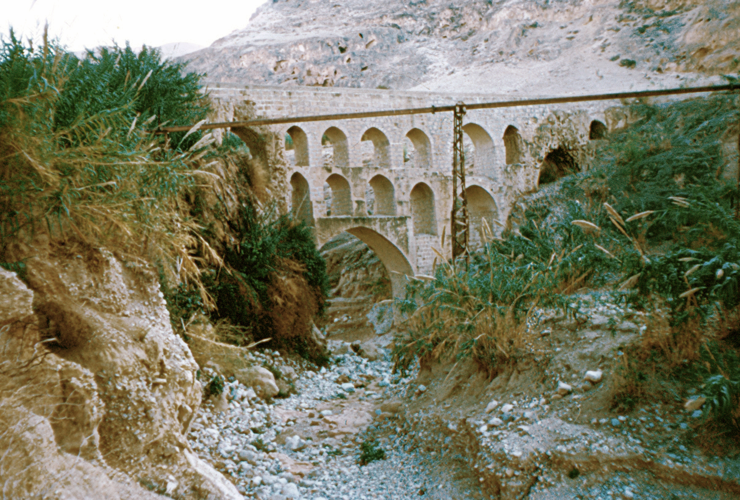 Roman_Aquaduct_near_Jericho West Bank